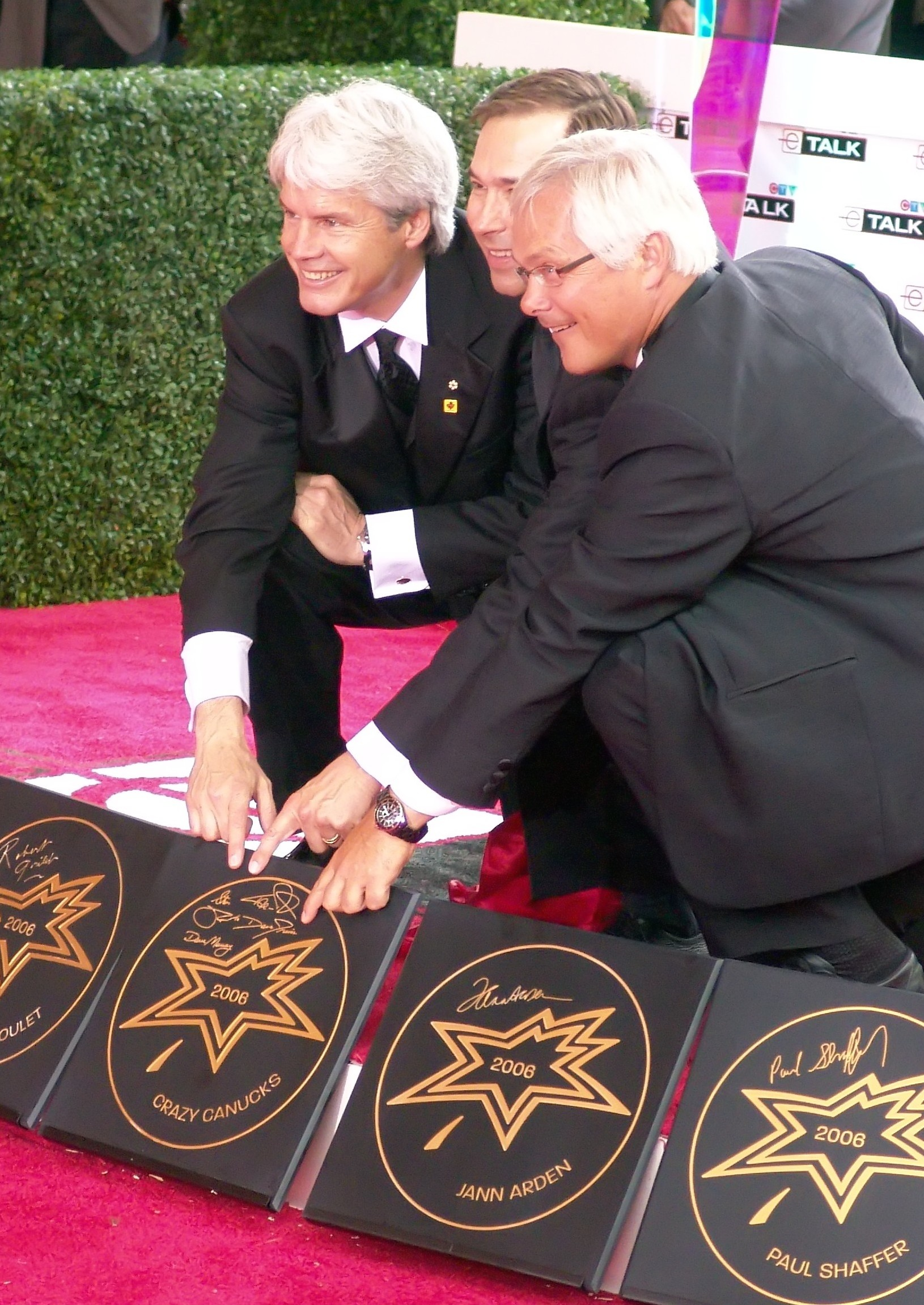 "The Crazy Canucks" - Ken Read, Steve Podborski & Dave Irwin at Canda's Walk of Fame ceremony in 2006